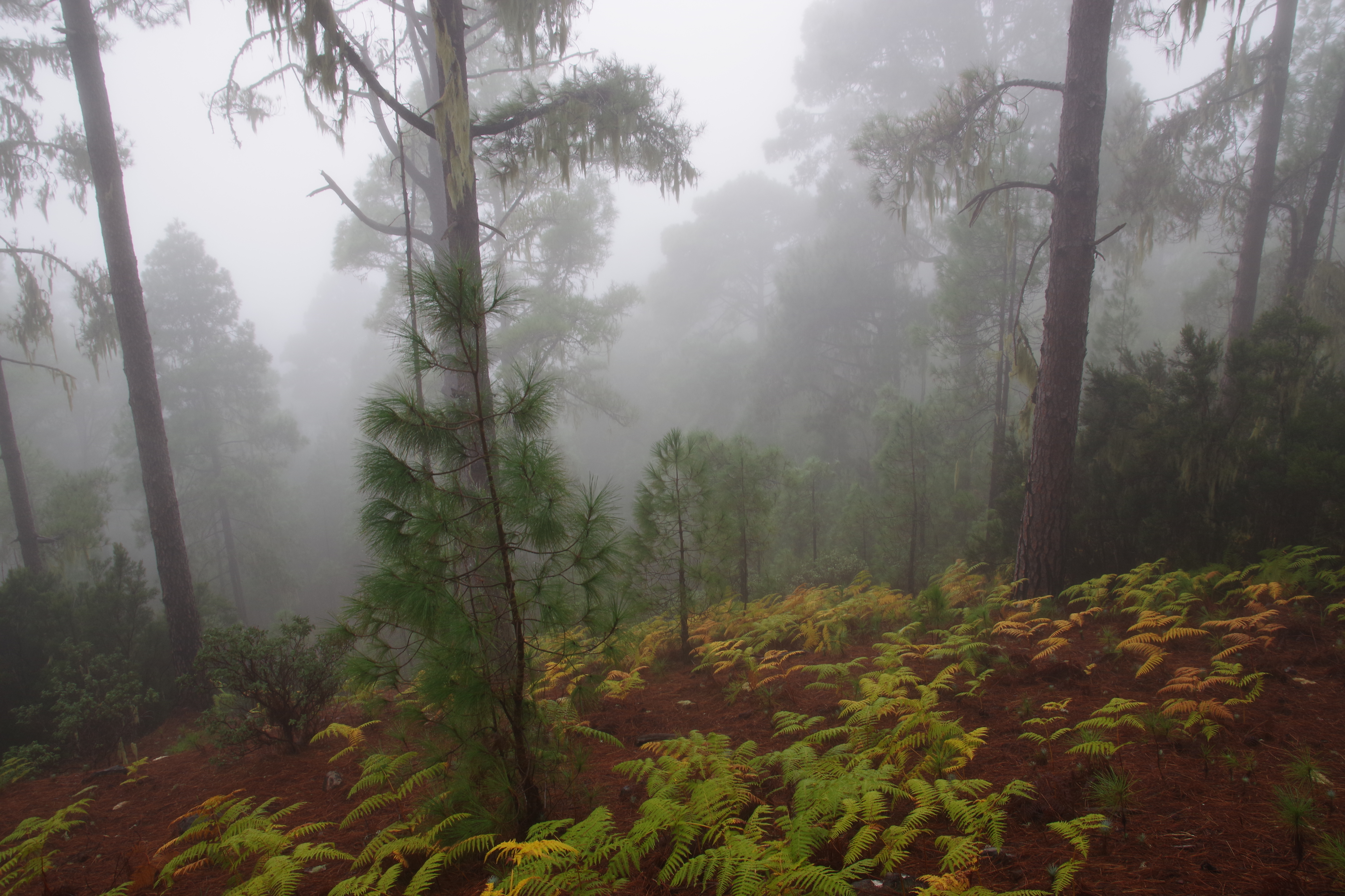 Tamadaba walk location: Parque Natural de Tamadaba, Gran Canaria island, Spain author: Jan Helebrant license CC BY-SA